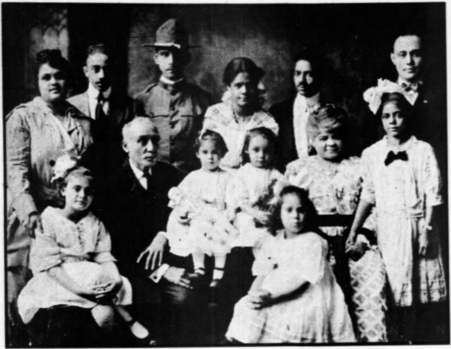 Photo of the Wells-Barnett Family